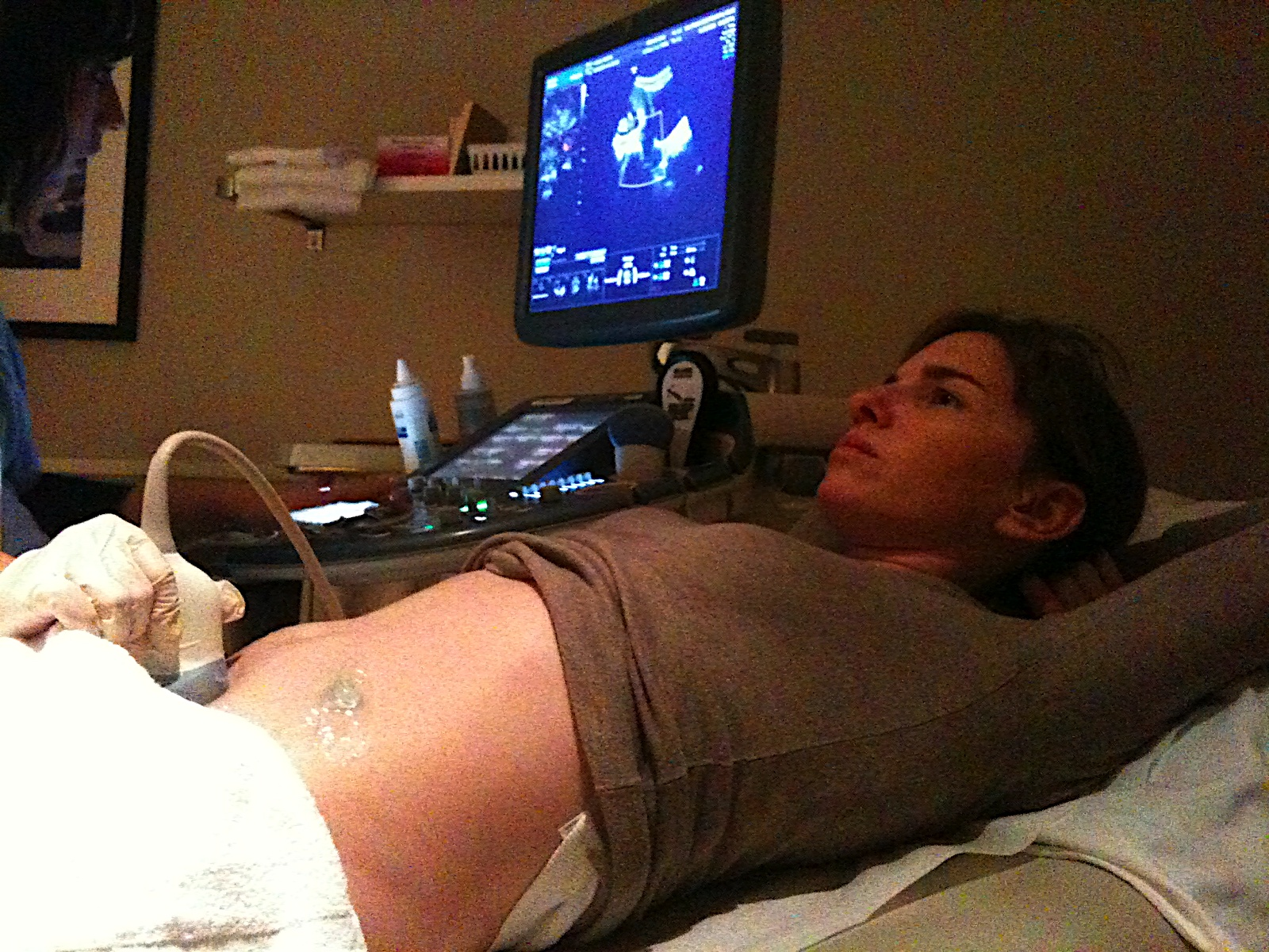 Medical ultrasound examination of a pregnant woman.